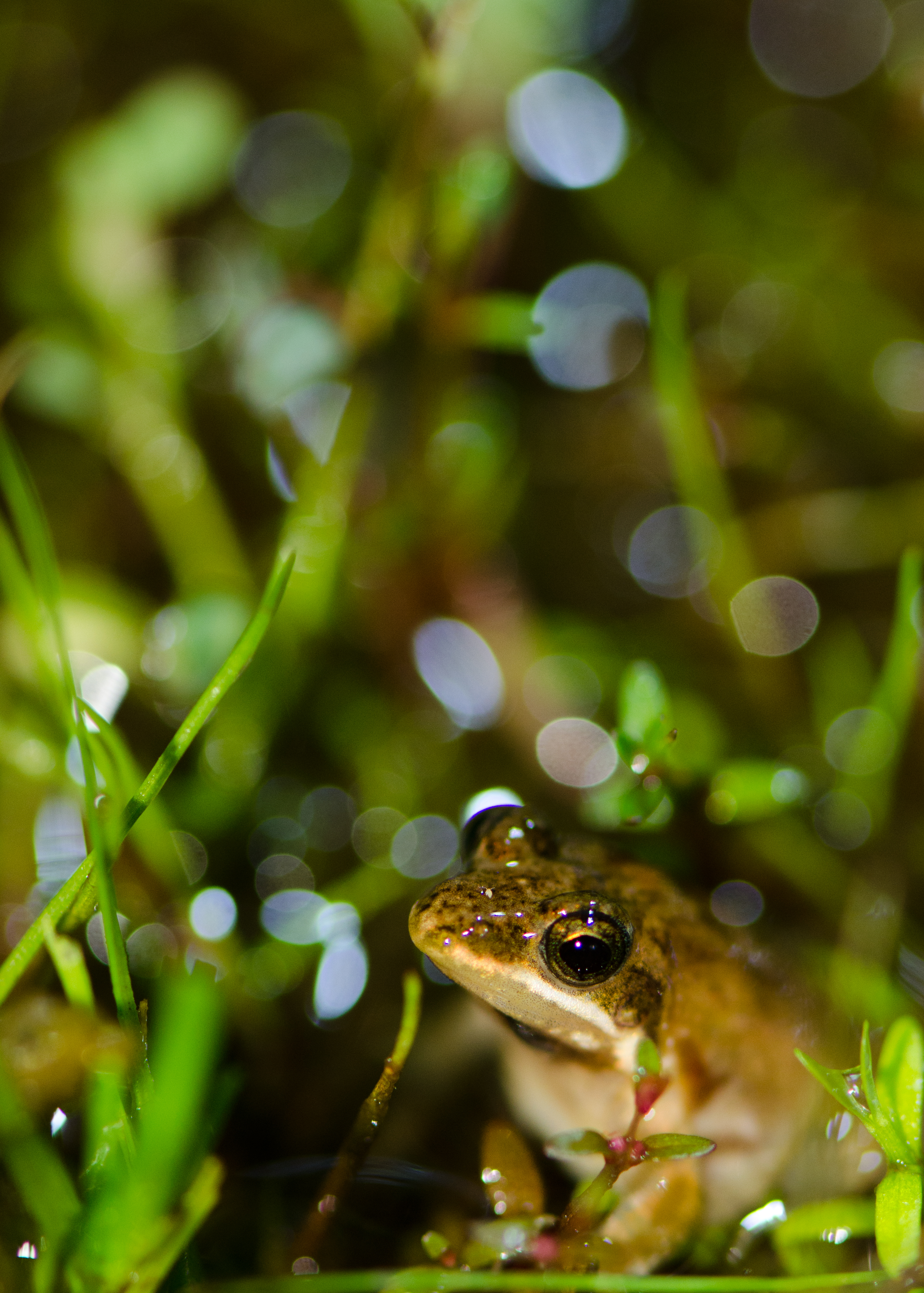 Fejervarya sahyadris is a is a species of frog in the Dicroglossidae family.Its in red list of threatened species. Recorded from Madayippara a lateritic hillock in the midland of Kannur District of Kerala.